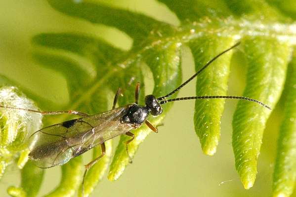 Hercus fontinalis from Commanster, Belgian High Ardennes .